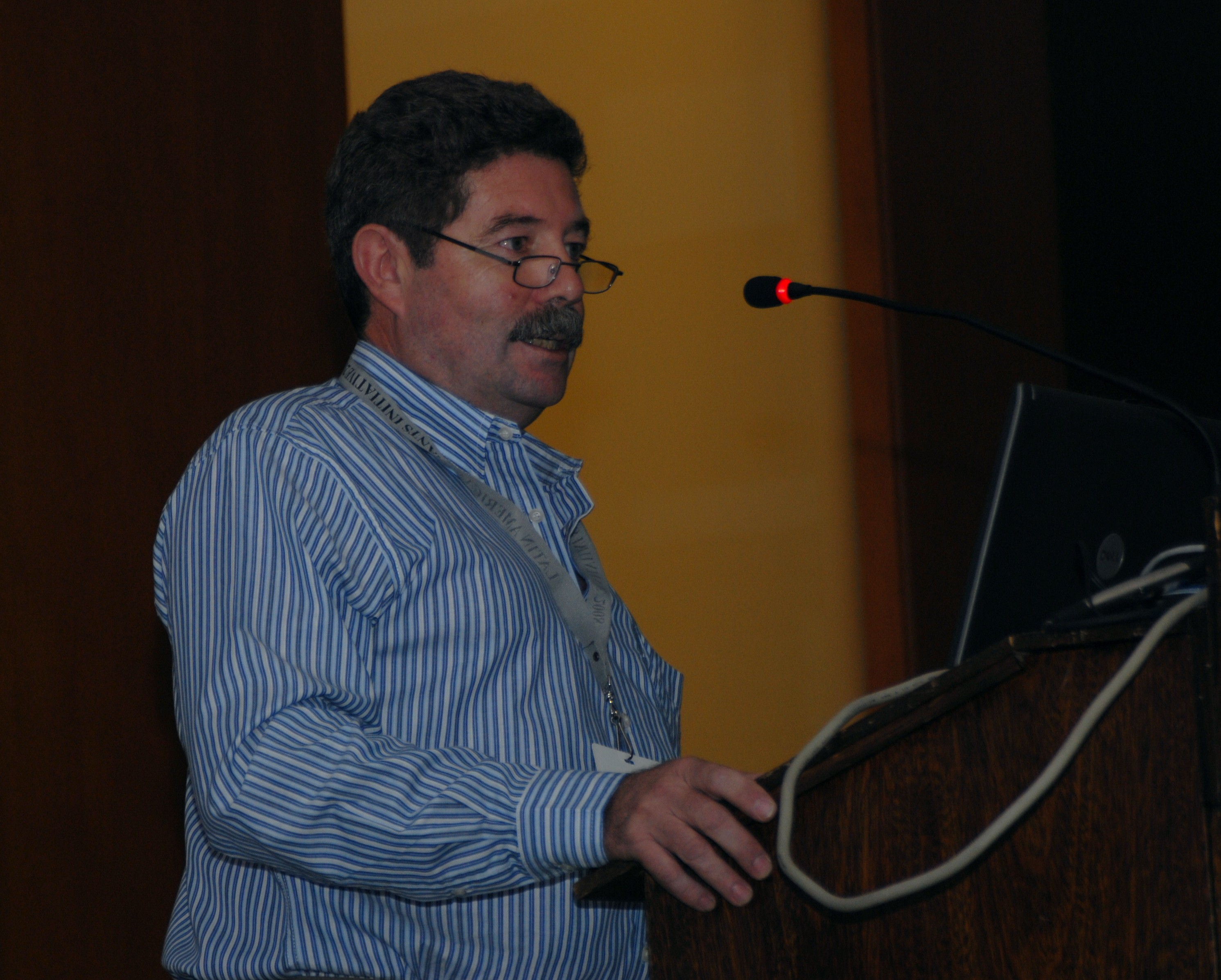 Mauricio Velayos, Phd., in 2008 , at a GPIs conference